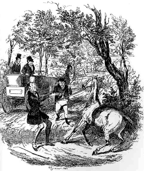 Illustration by Robert Seymour for "The Pickwick Papers", a work by Charles Dickens.